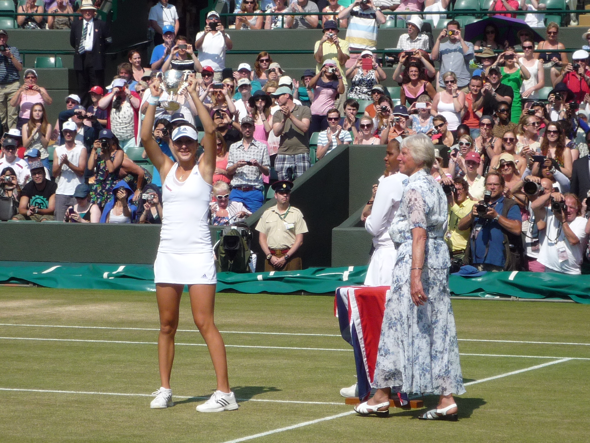 Belinda Bencic receives trophy from Ann Jones.jpg